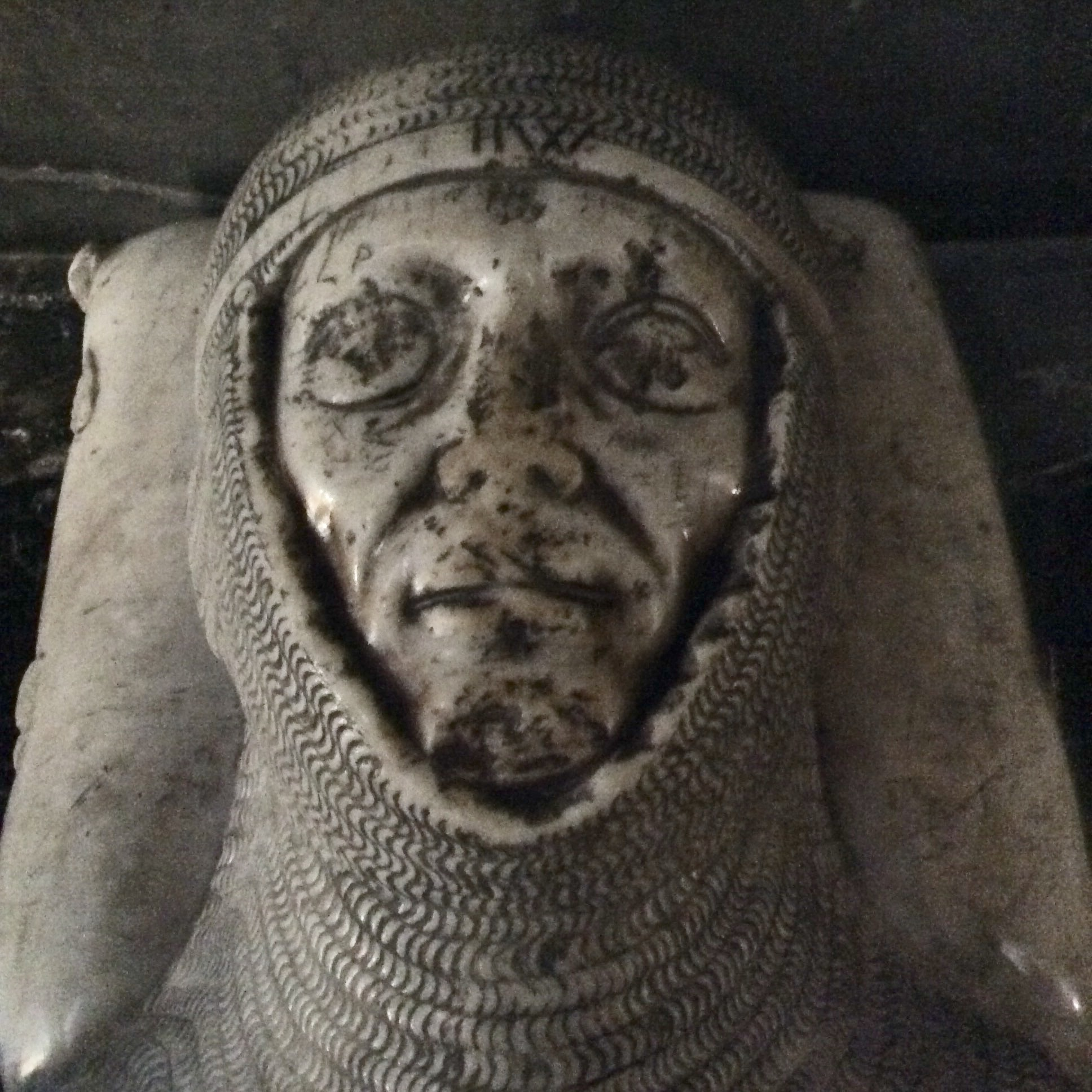 Tomb of Otto de Grandson (Otes de Grandison, 1st Baron Grandison (in England)) in Lausanne Cathedral